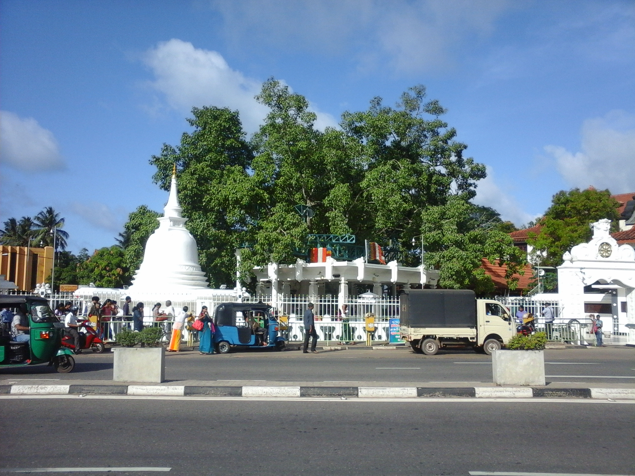 A view of Matara Bodhiya